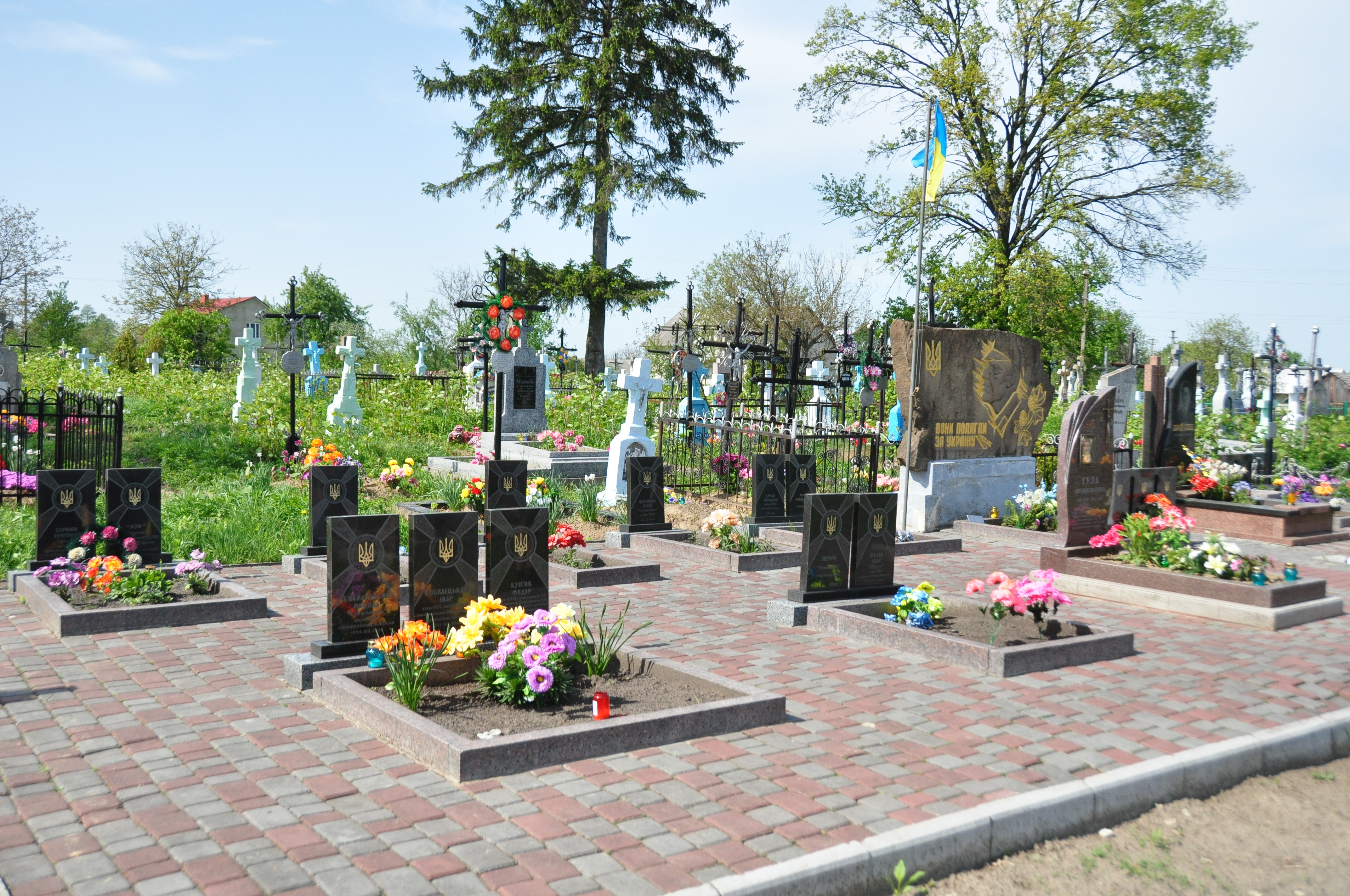 OUN-UPA Fighters Memorial in Buniv, Yavoriv Raion, Lviv Oblast